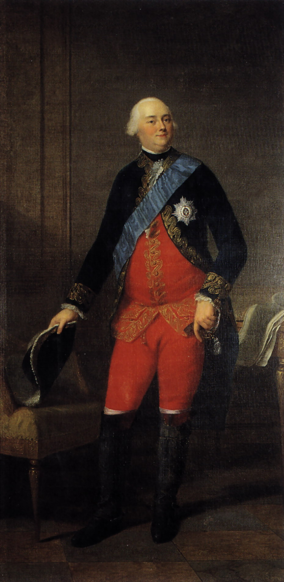 Charles Christian, Prince of Nassau-Weilburg (1735-1788), painted for the Gouvernors Palace in Maastricht, probably by Wilhelm Böttner, ca 1780. Museum collection of Schloss Fasanerie, Fulda, Germany.